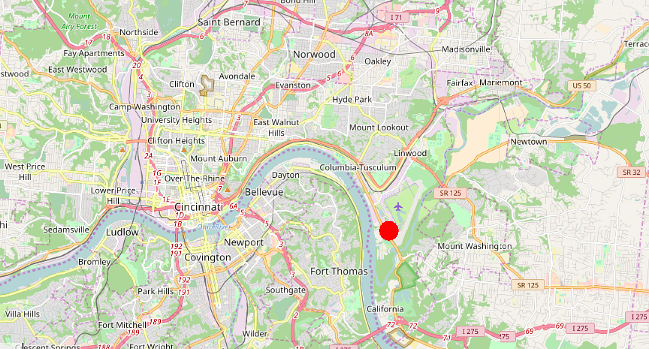 2017 Cincinnati nightclub shooting location This map of Cincinnati, Ohio was created from OpenStreetMap project data, collected by the community. This map may be incomplete, and may contain errors. Don't rely solely on it for navigation.